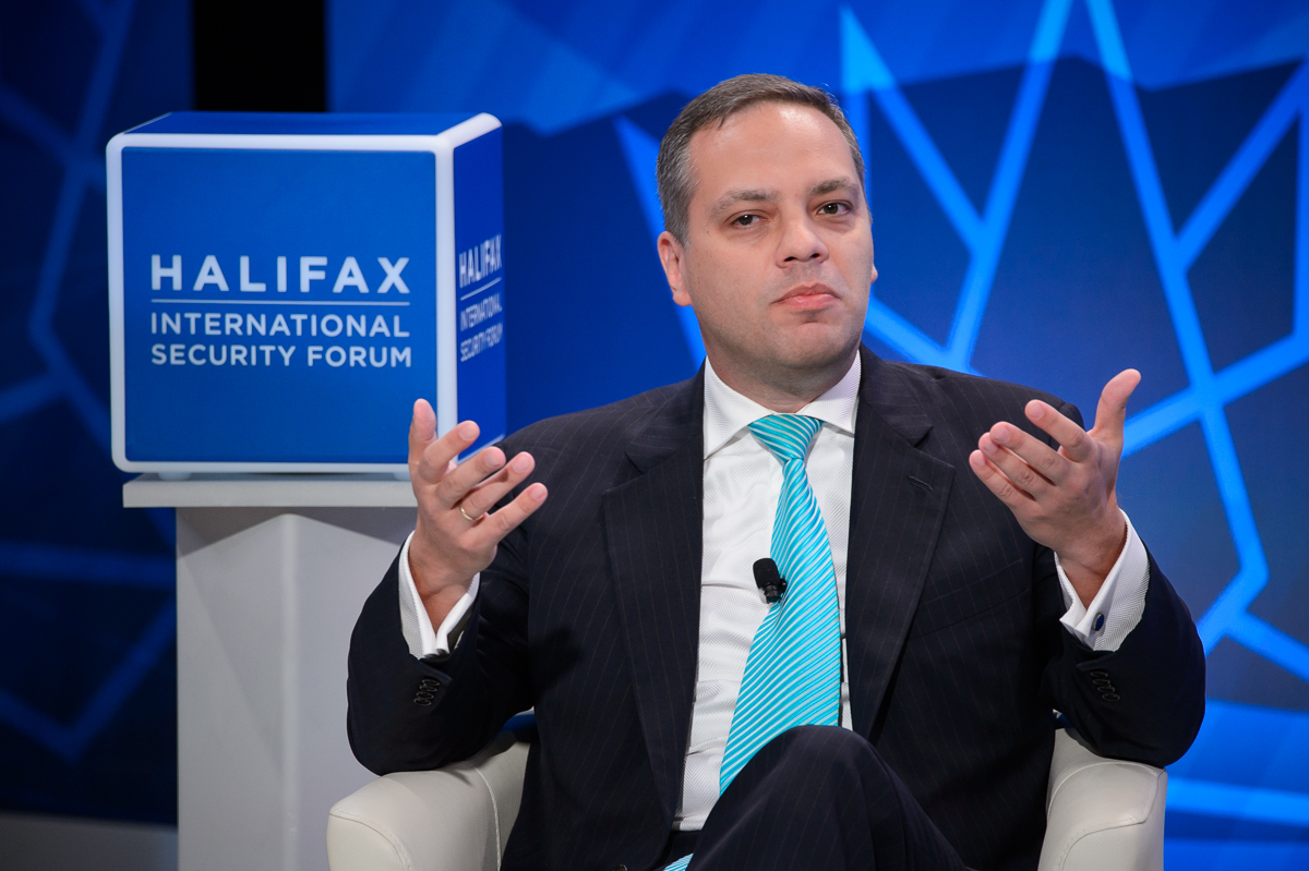 Vladimir Milov, Founder and President of the Institute of Energy Policy, speaks during the plenary session “Rapprochement with Russia: Post-Putin Prep.”